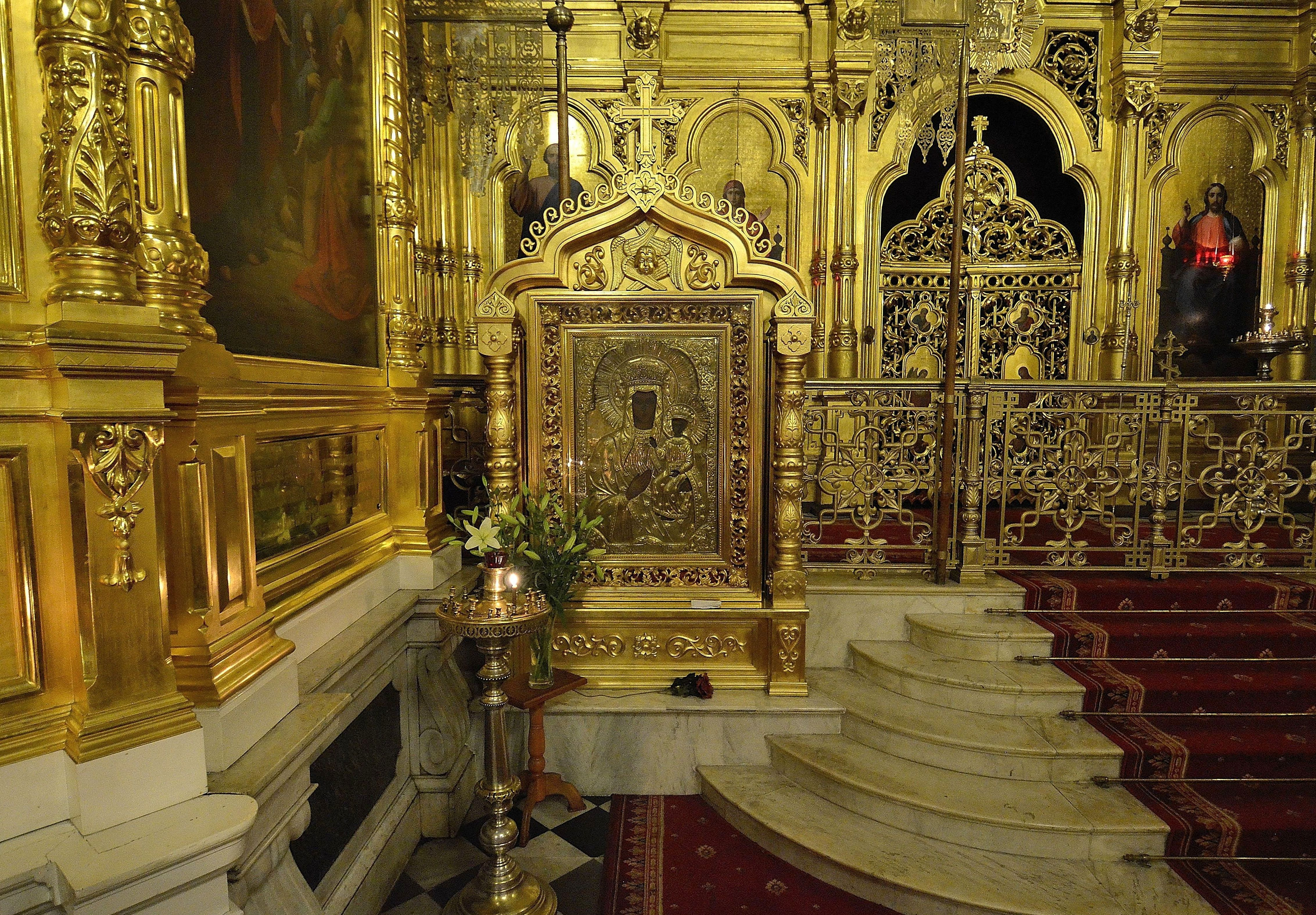 Interior of Metropolitan Orthodox Cathedral of St. Mary Magdalene in Warsaw